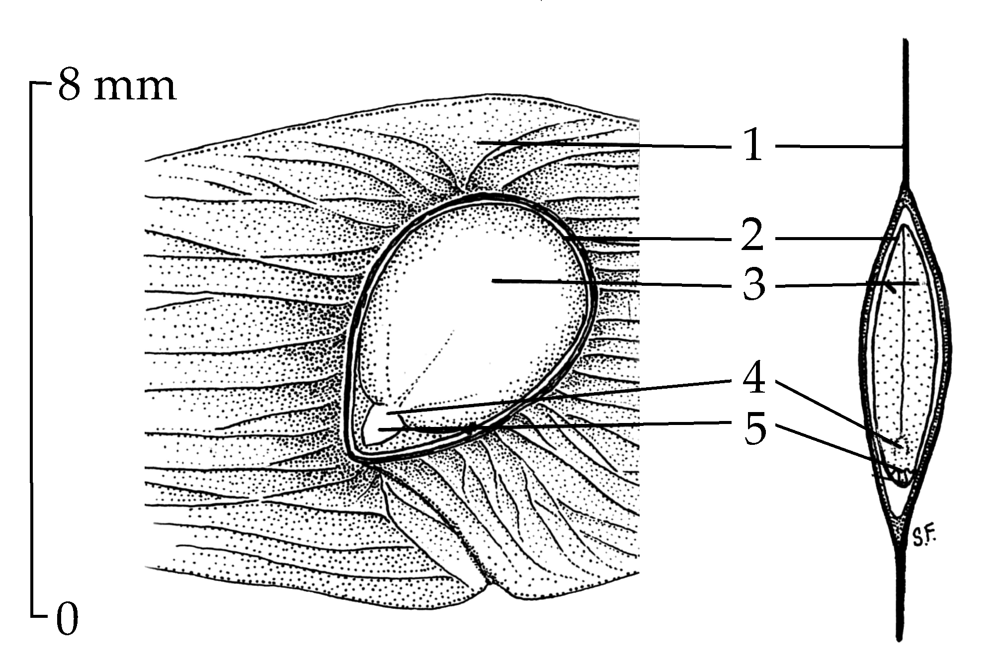 Line drawing of a seed of Ailanthus Desf. spp. Legend: 1: pericarp; 2: seedcoat; 3: cotyledons; 4: hypocotyl; 5: radicle.